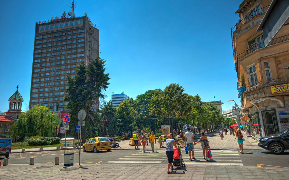 Downtown Burgas